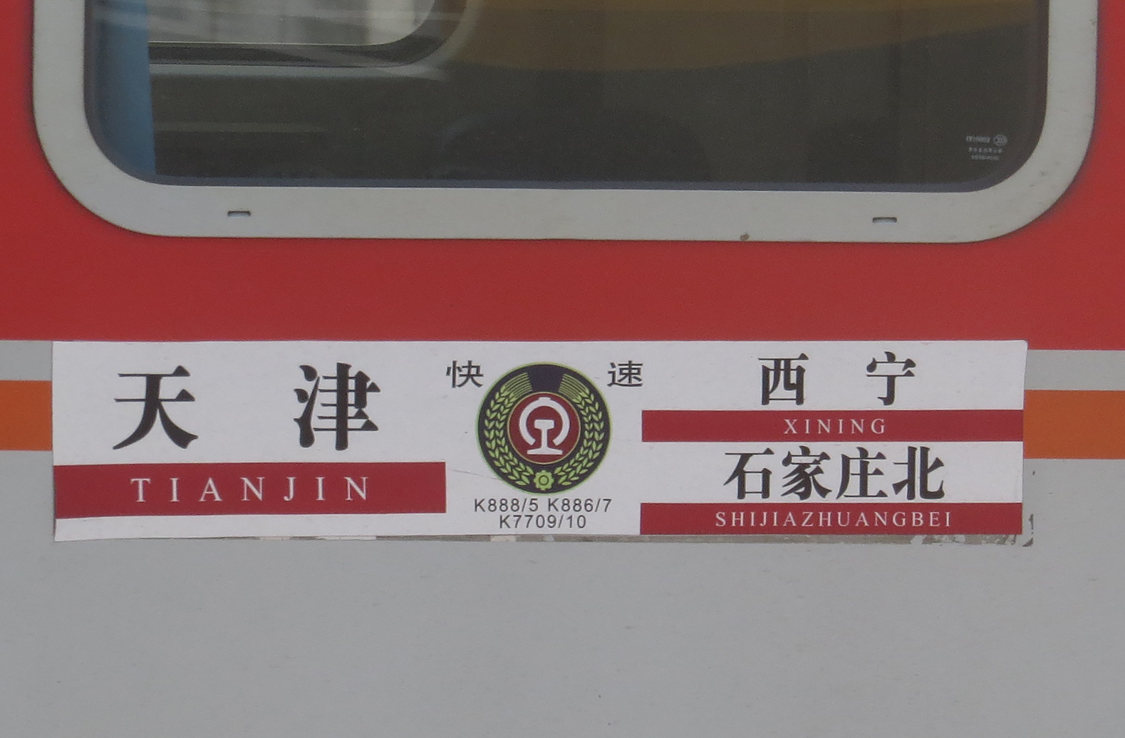 Tianjin to Xining via Baotou.